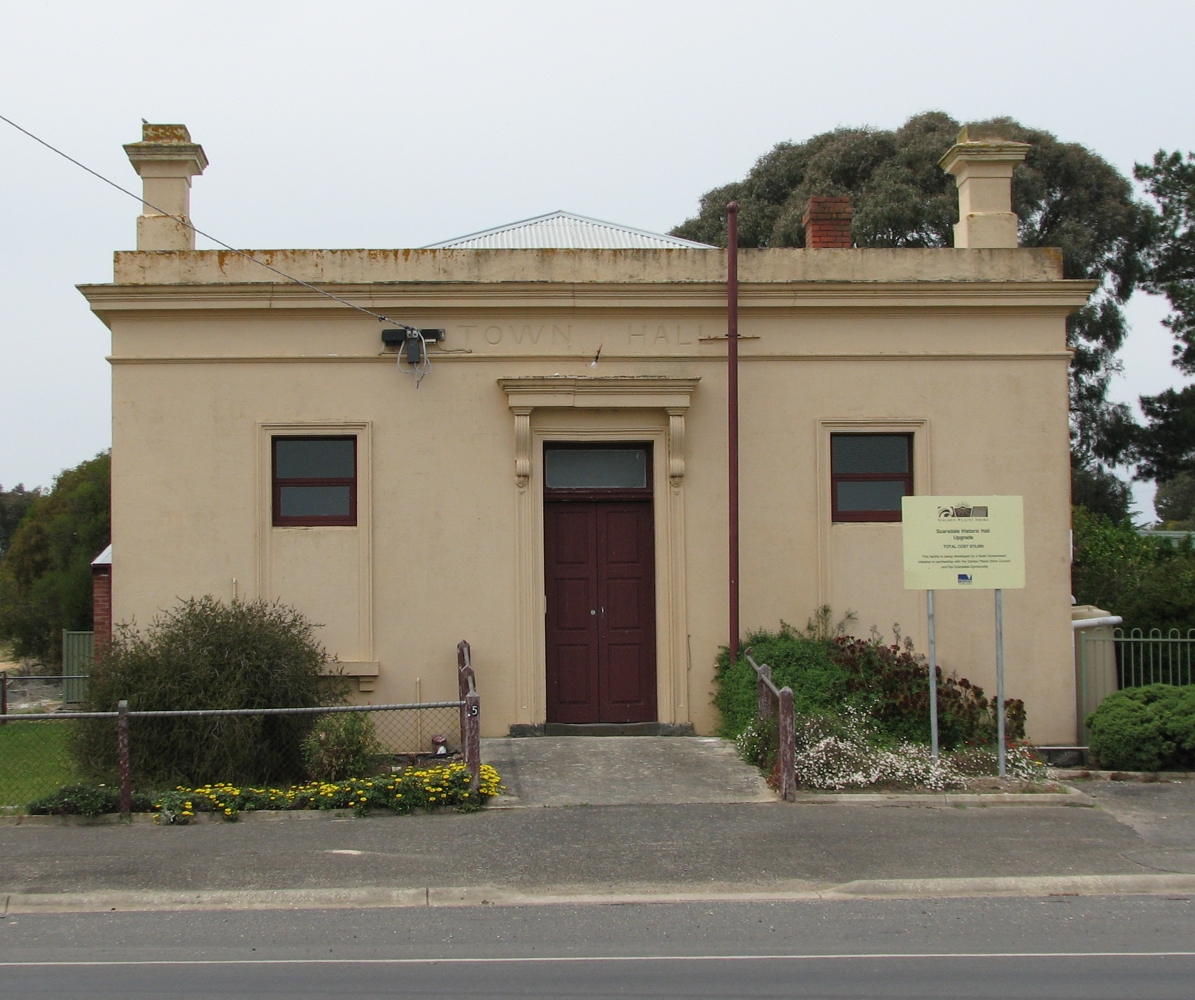 Town Hall, Scarsdale, Victoria, Australia. Former Town Hall of Borough of Browns and Scarsdale